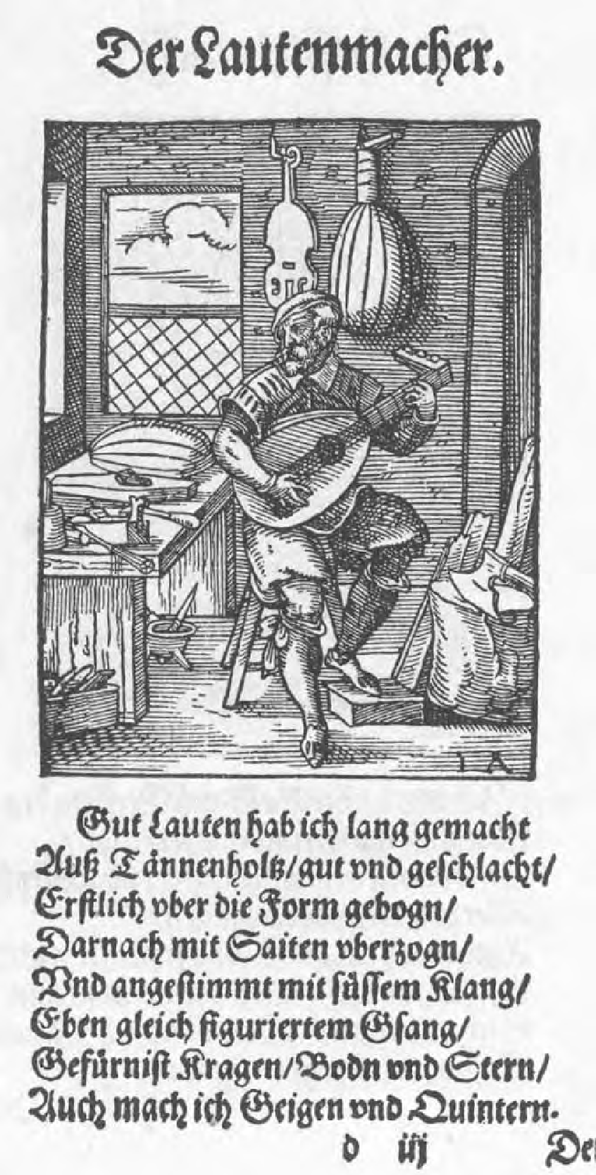 This is a scan of the historical document